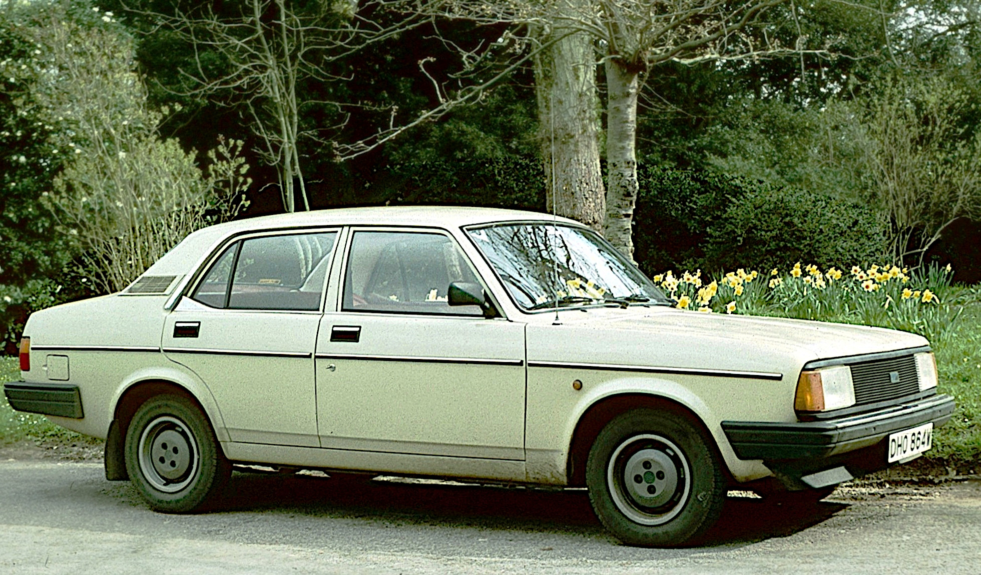 Morris Ital Cambridge Data per DVLA: Date of first registration: August 1980 Year of manufacture: 1980 Cylinder capacity (cc): 1700 cc Vehicle status: Not taxed